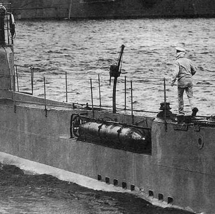 Dzhevetski drop collar type torpedo launcher on Russian submarine Russian submarine Akula (1908) (Note, wrong launch date of this submarine, in English version of this article)